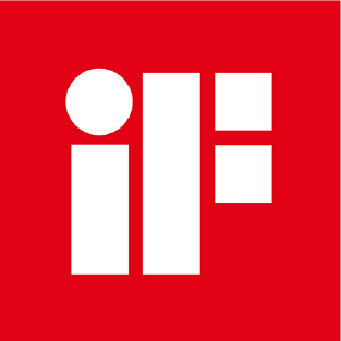 iF Award